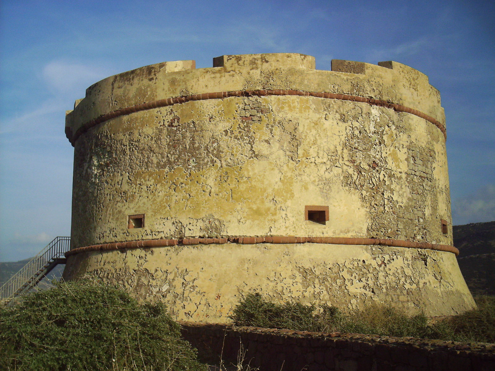 Aragonese tower on the Red Island in Bosa Marina